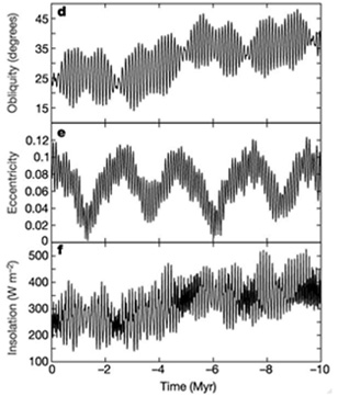 Changing of Mars' axial tilt (obliquity) and its orbital eccentricity over the past 10 million years, along with changing of the amount os sunlight (insolation) reaching the Martian surface